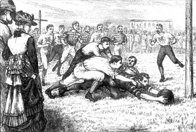 Europeans playing rugby football in Calcutta. Note - lack of Indian people, round (rather than oval) ball, unusual clothing and goal posts. Several of the players appear to be Welsh (hence the dragon)